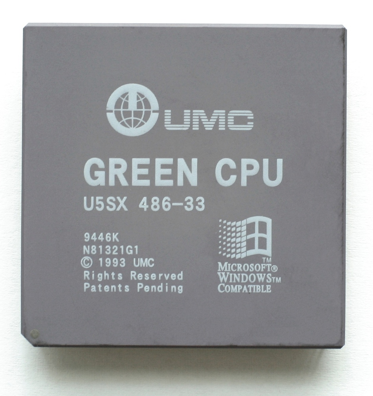 CPU UMC U5SX